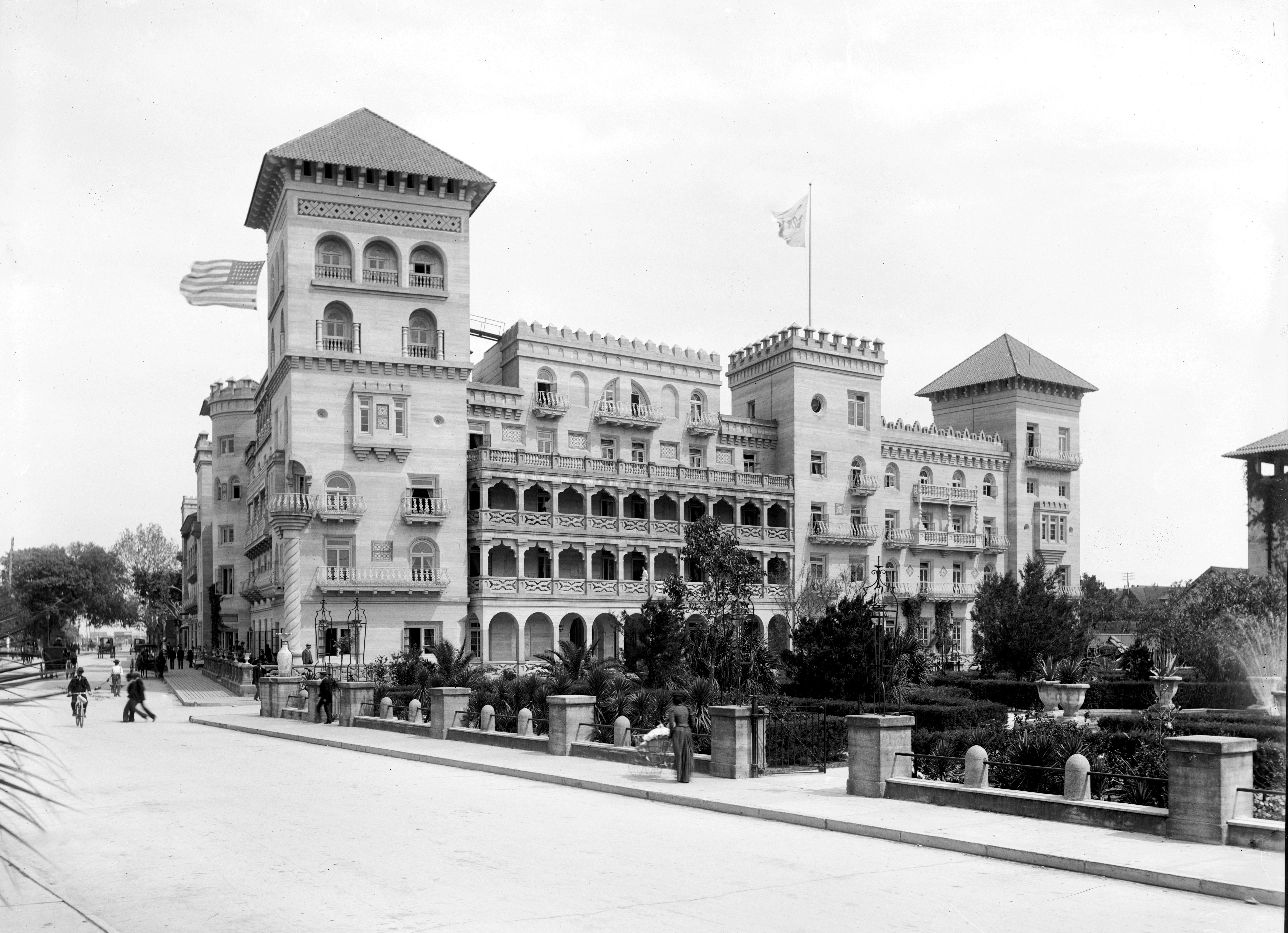 The Casa Monica Hotel, originally known as The Cordova Hotel, located in St. Augustine, Florida, United States.